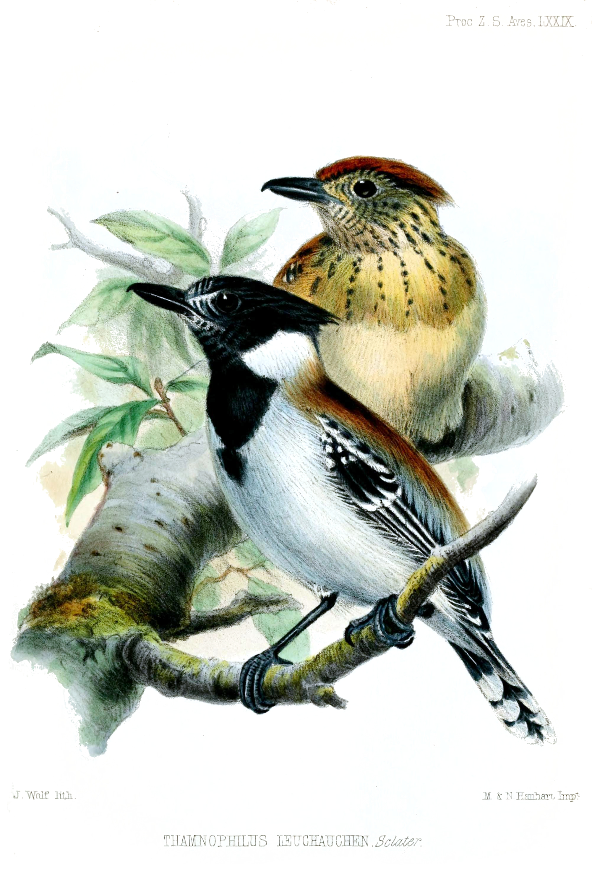 Black-crested Antshrike, male (front) and female (back)